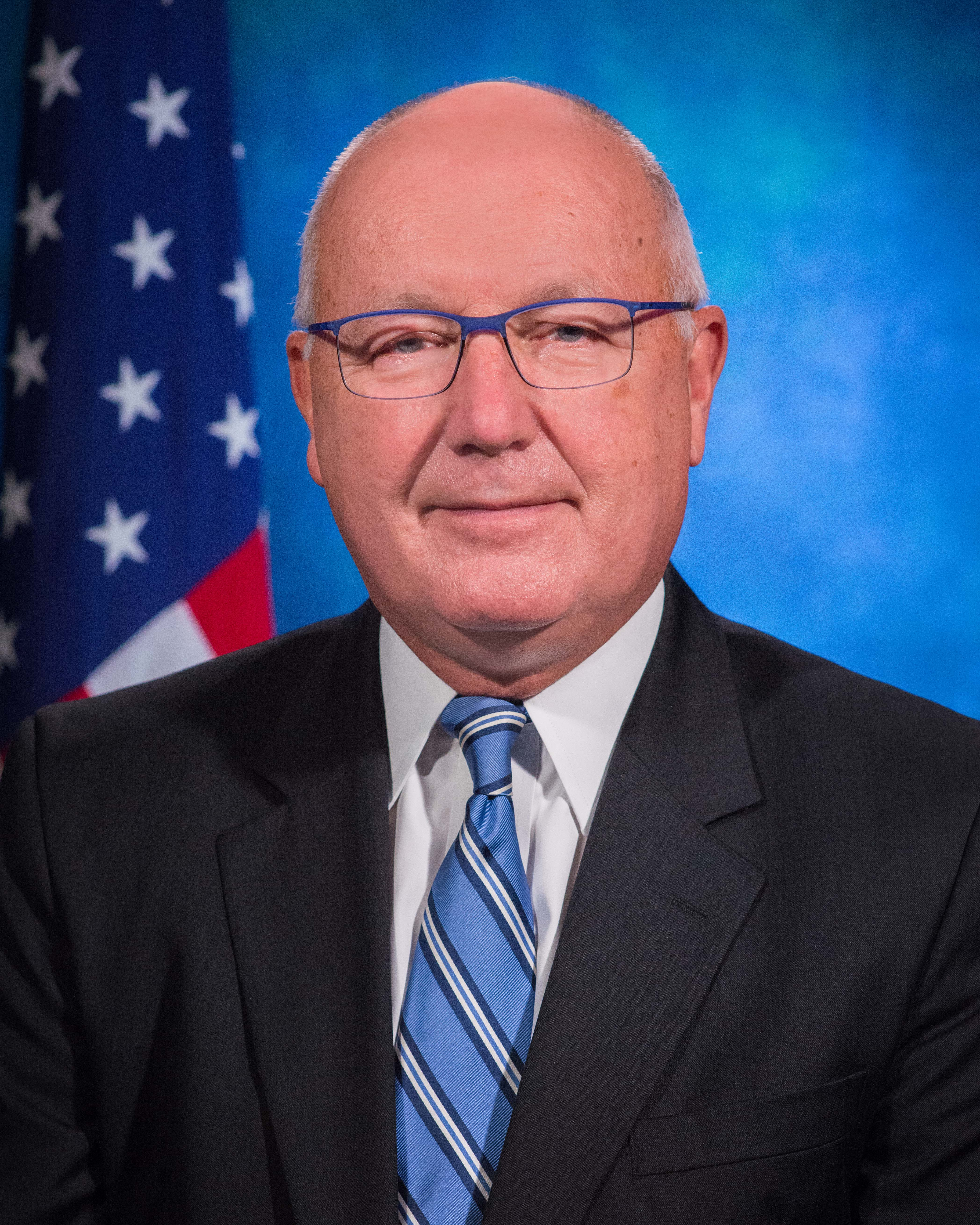 Peter Hoekstra